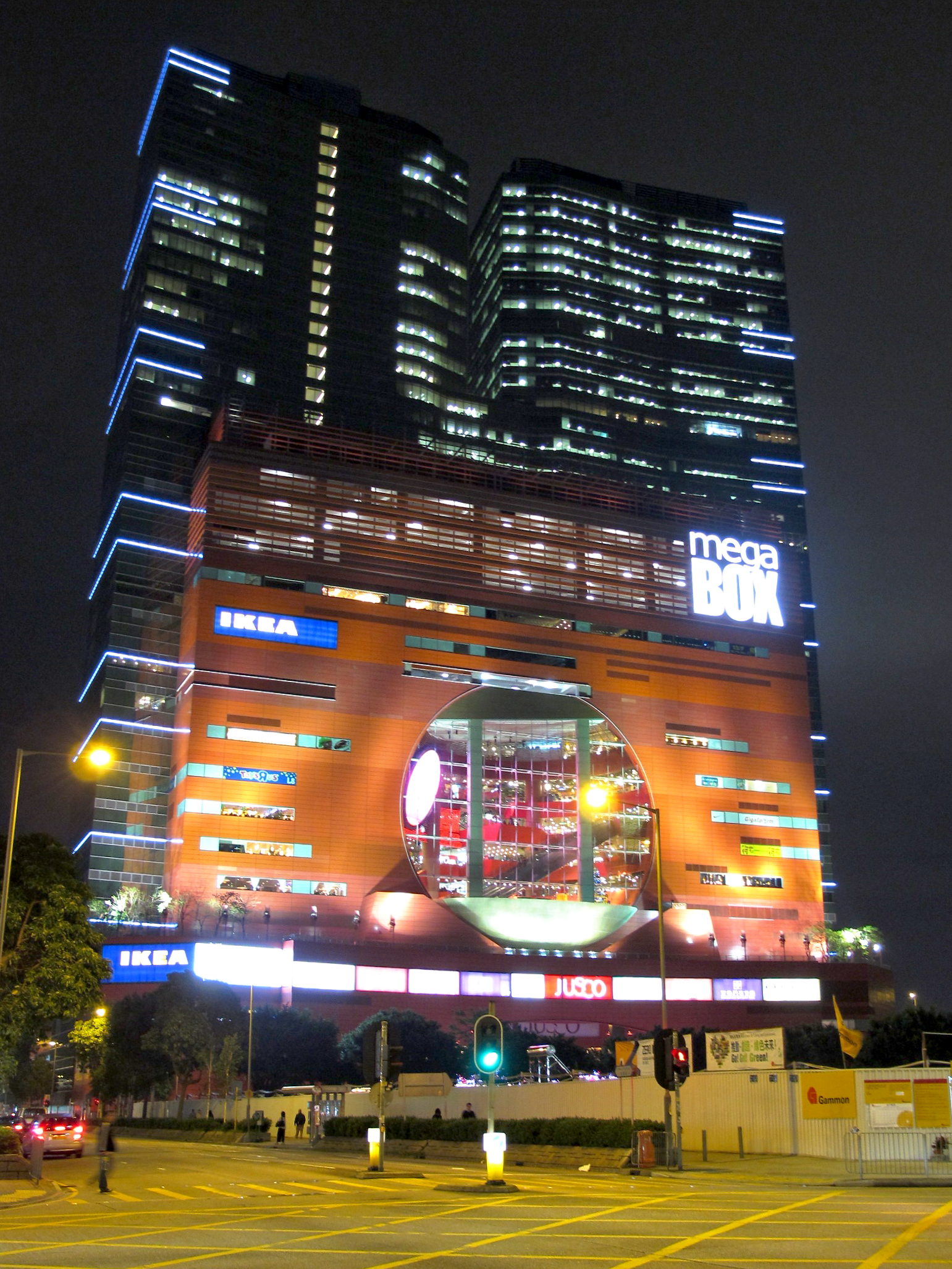 Enterprise Square Five Night view